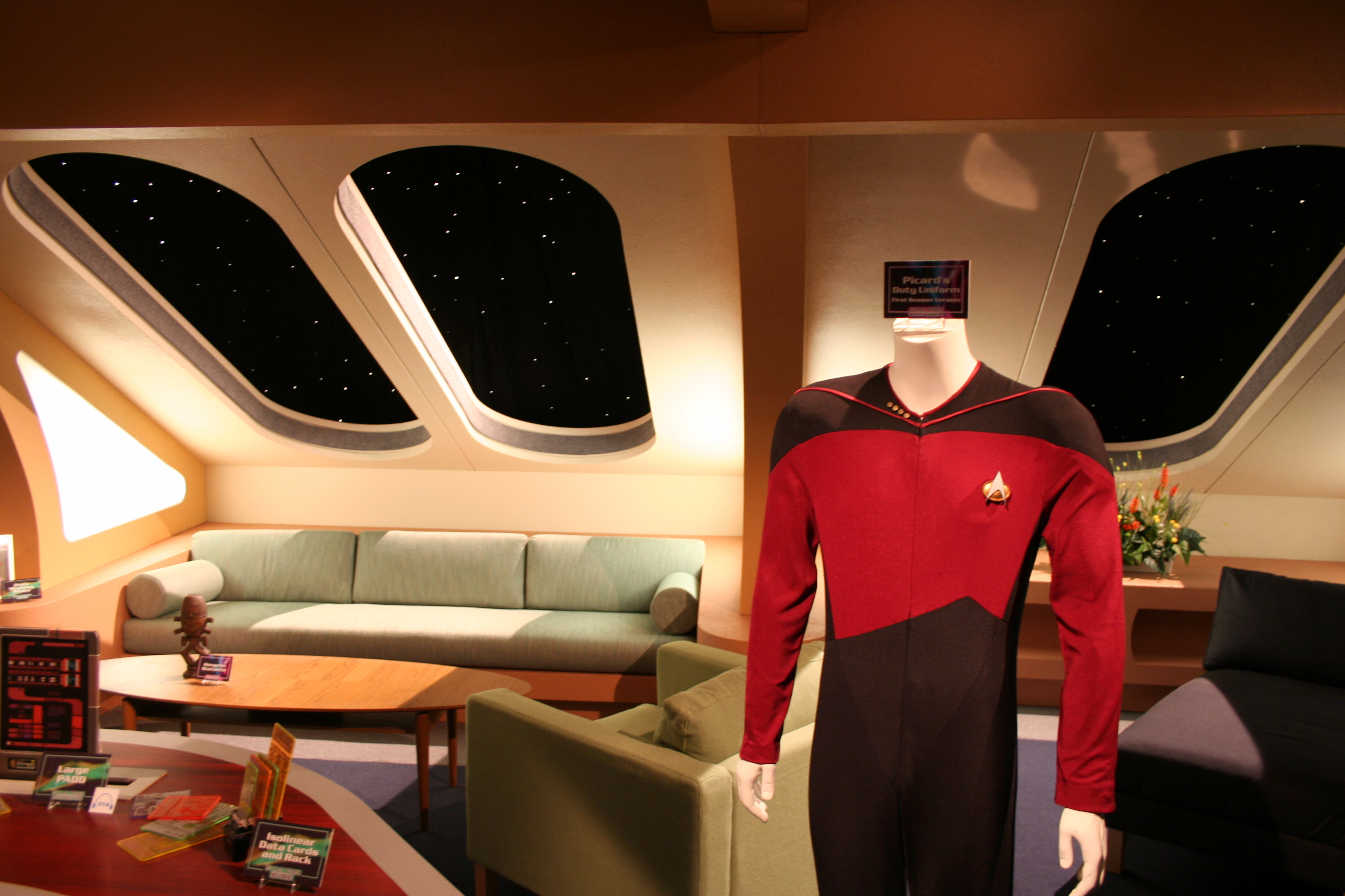 crew qtr